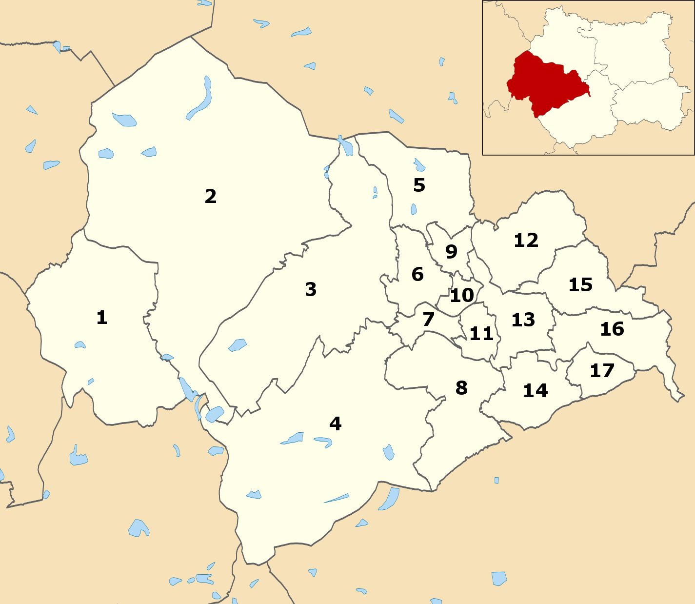 Map of Calderdale Council, West Yorkshire, UK with electoral wards numbered.